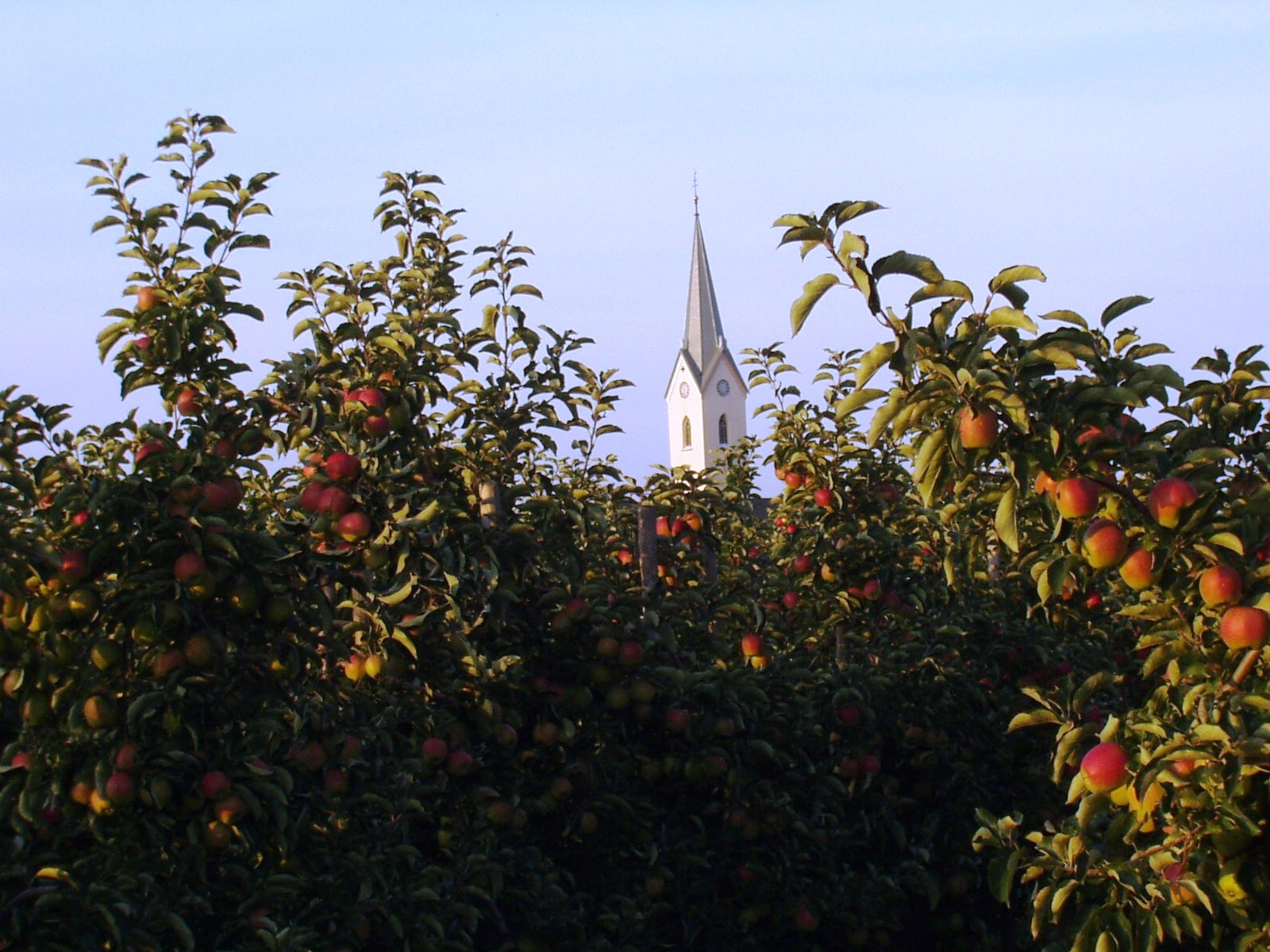 Description = Produce cultivation near Eriskirch (Lake constance), Germany Author = Philipp Hertzog